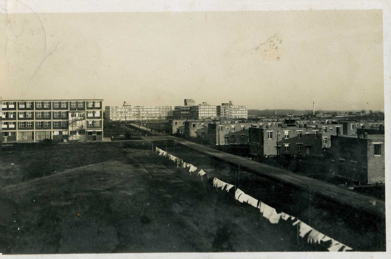 Standard Bata factories and housing at Borovo near Vukovar, Yugoslavia (present day Croatia)